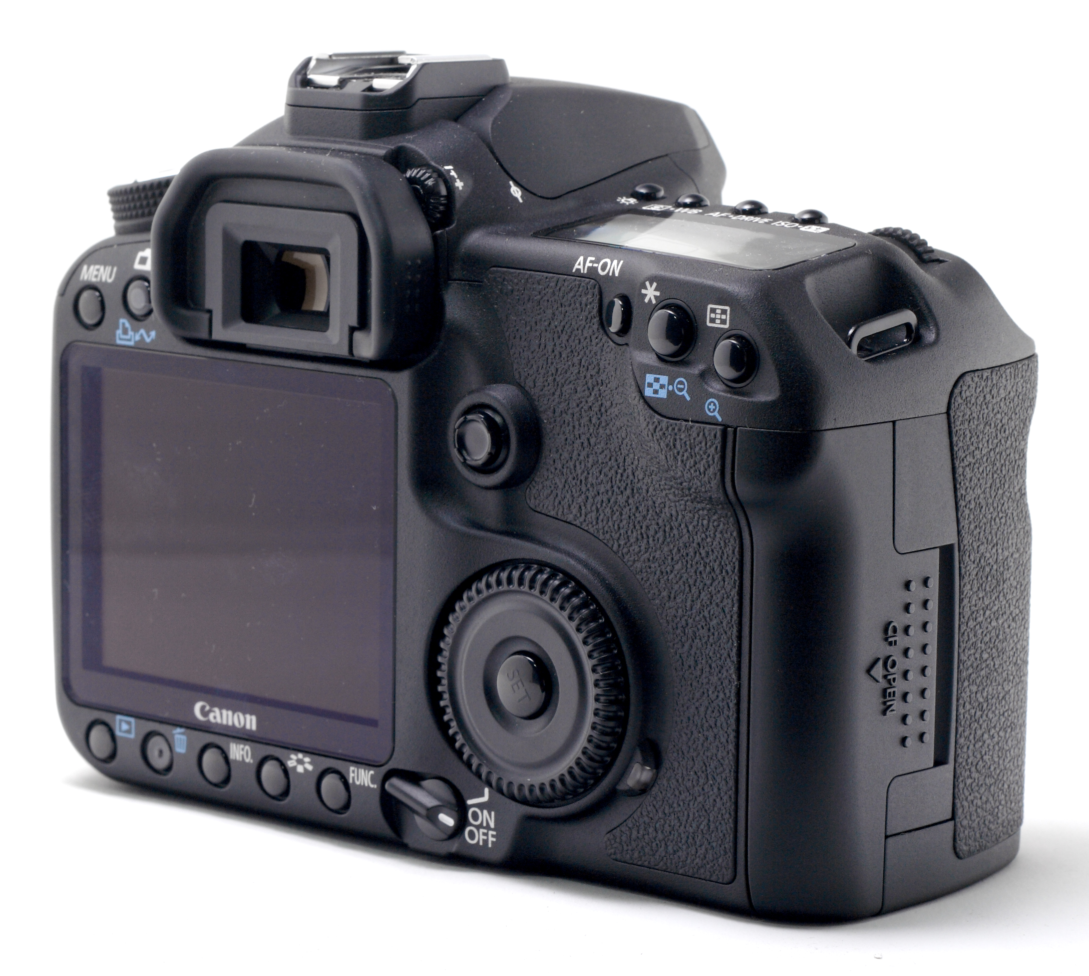 Photo of the Canon EOS 50D Digital, from the back.